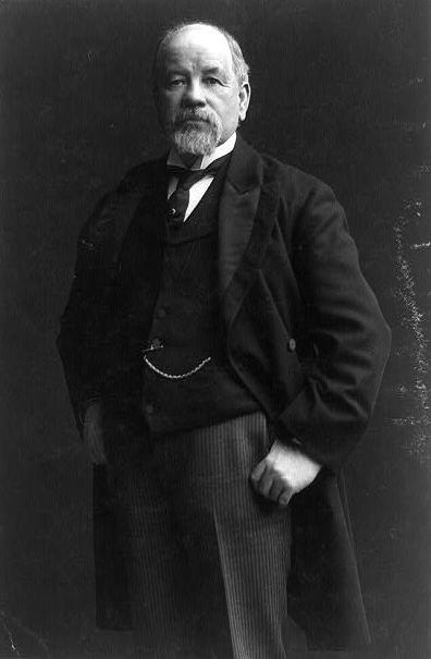 Thomas Burke, unsuccessful candidate in 1910 to succeed Senator Samuel H. Piles as Washington state's U.S. senator. Burke was one of Seattle's most prominent citizens of his era, known not only as a lawyer, sometime judge, and political figure, but also for his role in the development of the school system and as a real estate developer.